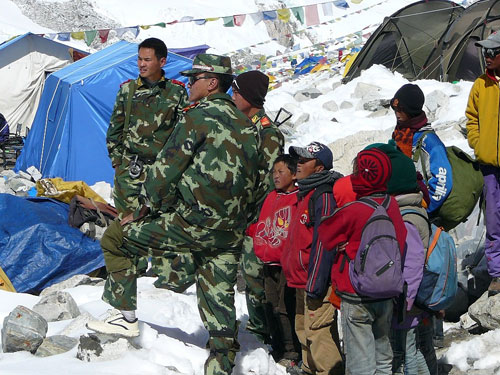 Nangpa La killings. Chinese People's Armed Police in Advanced Base Camp on Cho Oyu with captured Tibetan children, looking back towards Nangpa La.